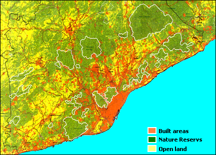 Land use mosaic of Barcelona urban region